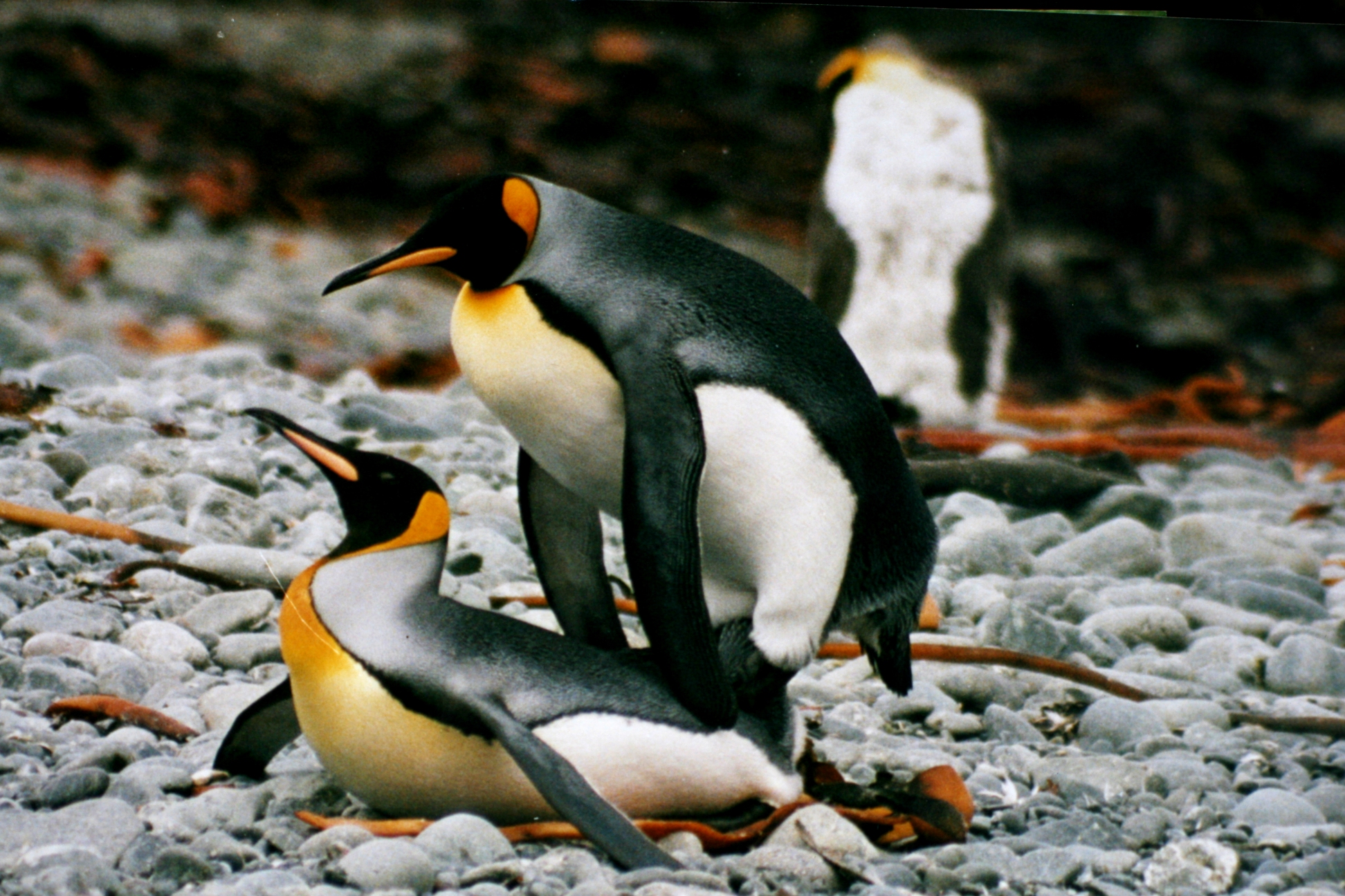 King Penguins mating at Macquarie Island. Photograped by Brocken Inaglory in January, 2002